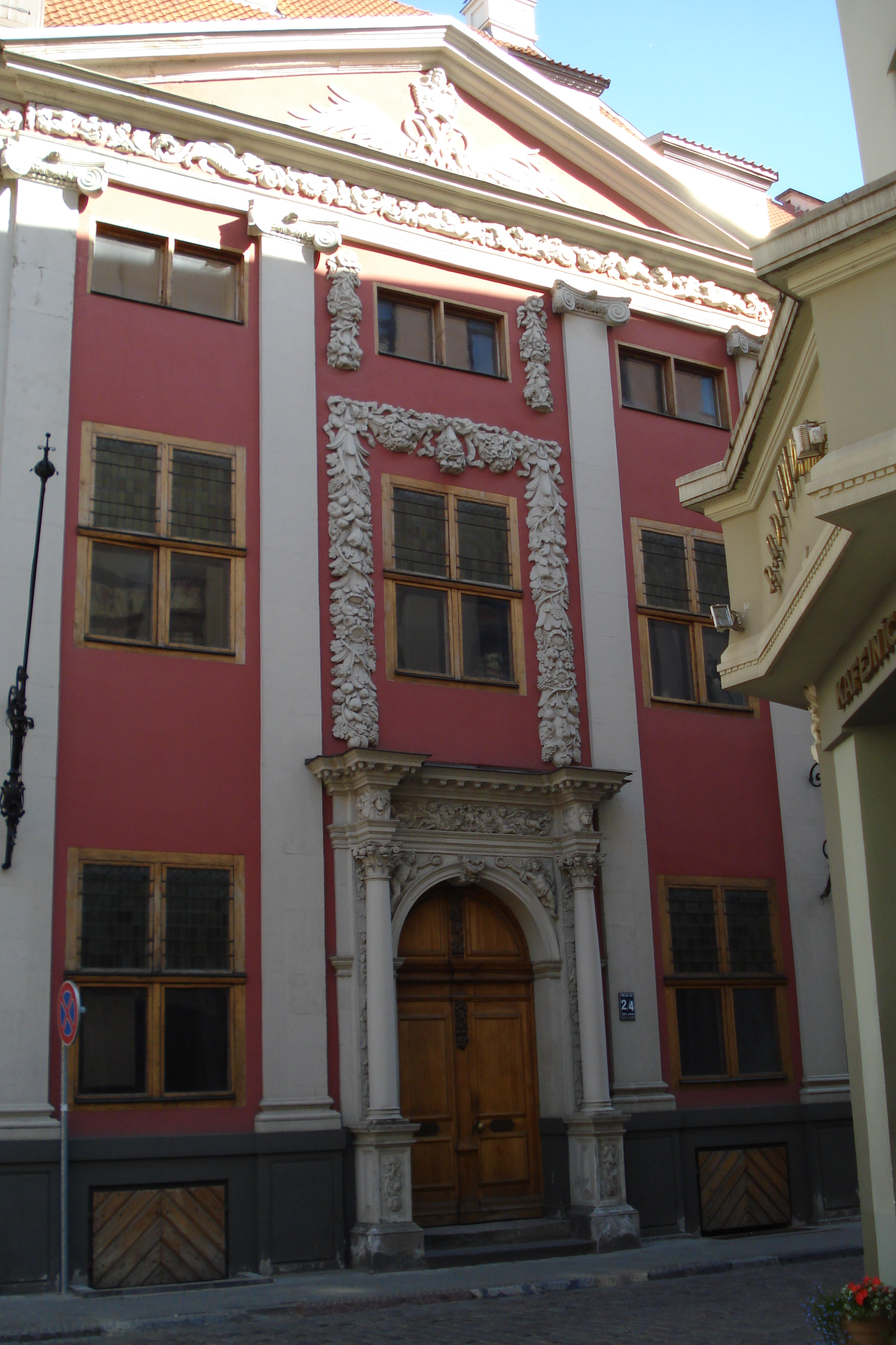 Reitern House in Riga. Architectural monument of national significance. Dates from 1685. The architect of Reitern House is Riga City artist Ruperts Bindensu. The building in Northen Baroque style was built in 1684-88 for the merchant and Town Councillor Johan Reitern. Reiterna nama arhitekts ir Rīgas pilsētas būvmeistars Ruperts Bindenšū. Nams ziemeļu baroka stilā celts 1684. -1688. g. tirgotājam un rātskungam Johanam Reiternam (Mārstaļu iela 2/4)